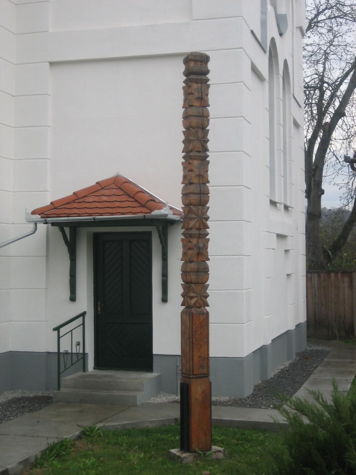 Kopjafa in the garden of the Reformed church in Luduş.